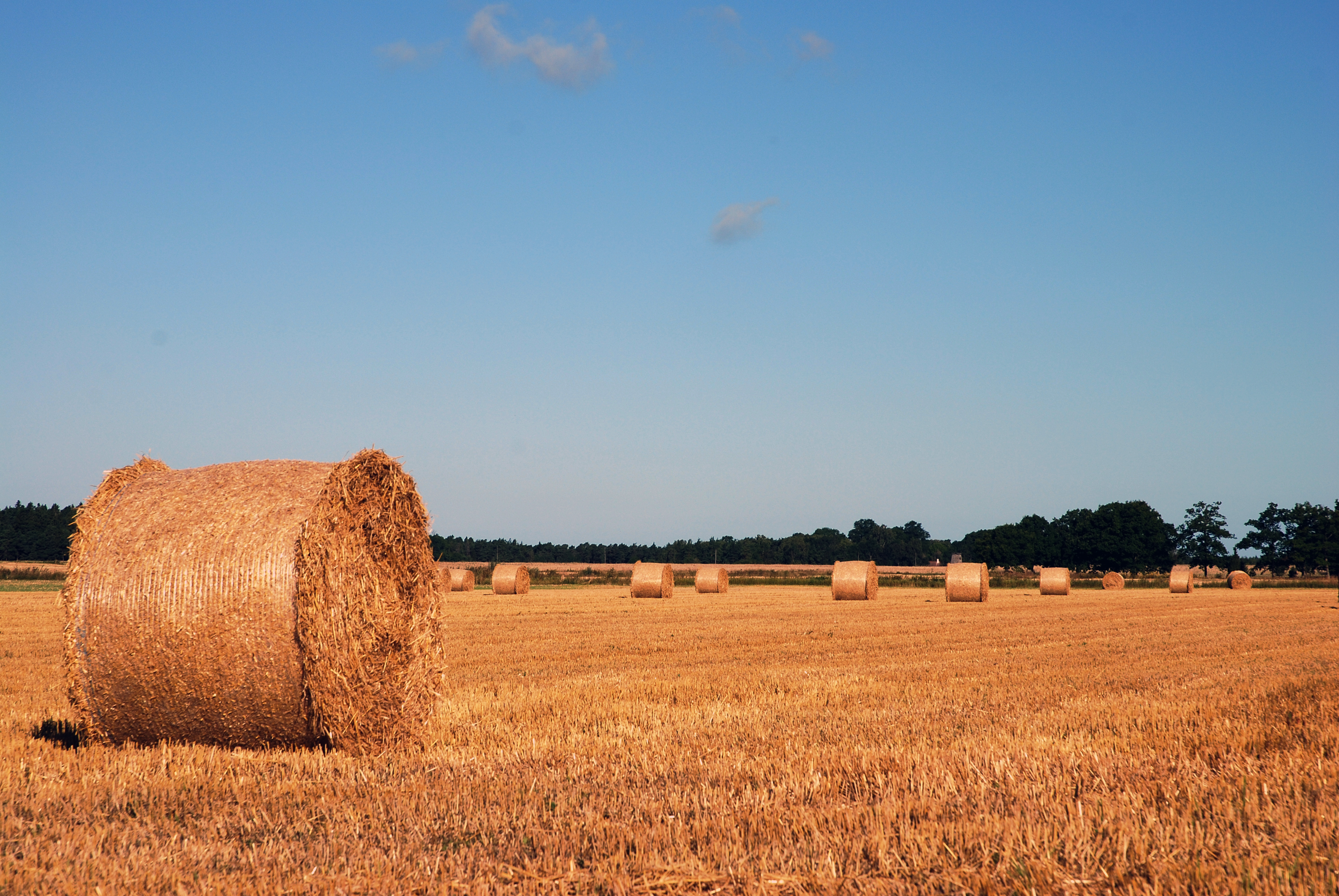 Gotland,Aug 2009